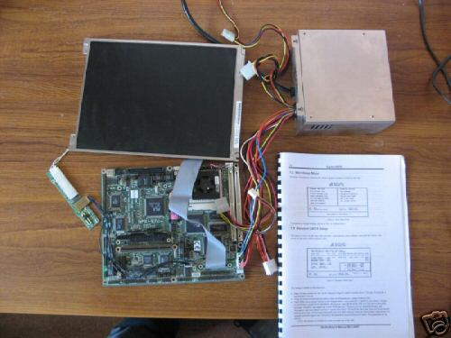 Densitron DPX-57 Single Board Computer with PSU, flatscreen and manual